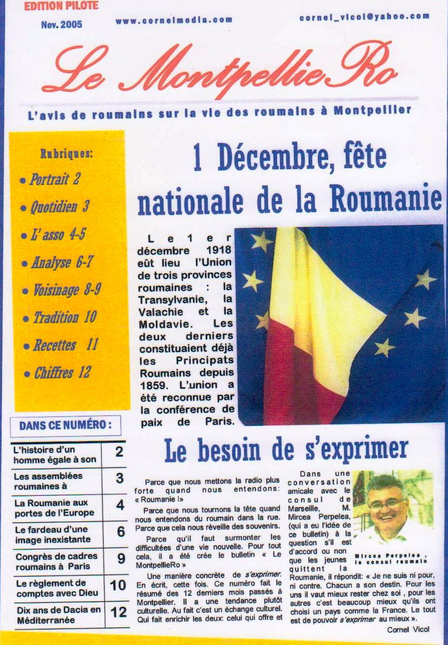 Fête Nationale de la Roumanie, 2005